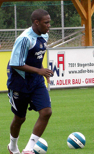 Image of footballer Charles N'Zogbia